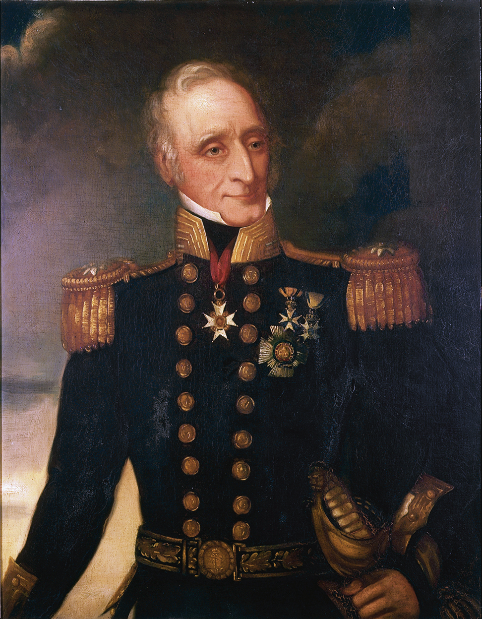 Rear-Admiral Thomas Baker (ca. 1771-1845)